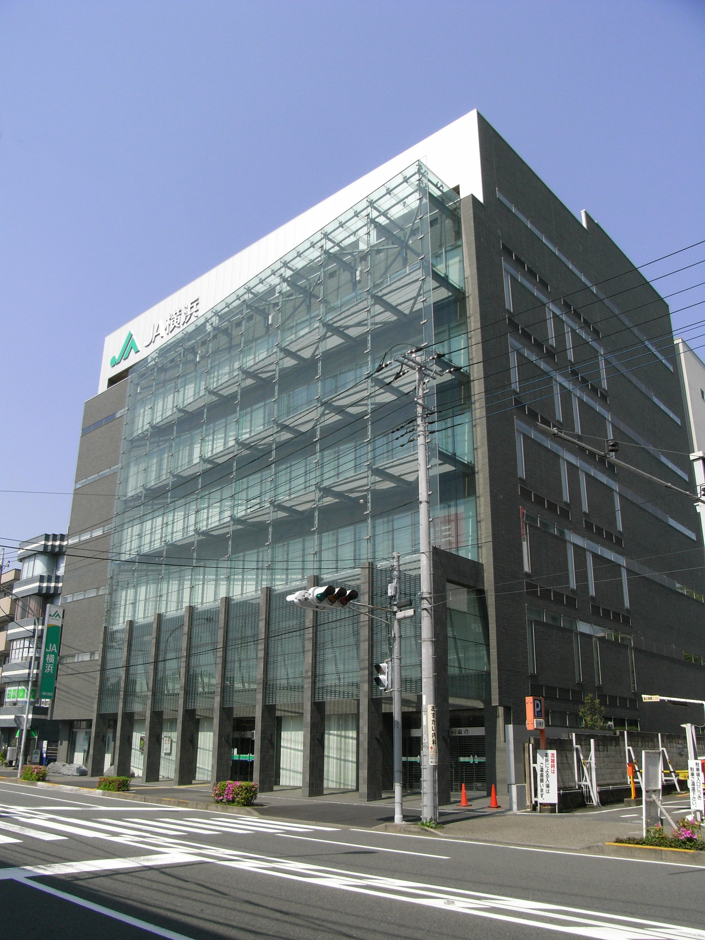 Head office JA Yokohama, Asahi-ku Yokohama, Japan